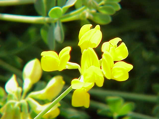 Species: Coronilla minima Family: Fabaceae Image No. 4